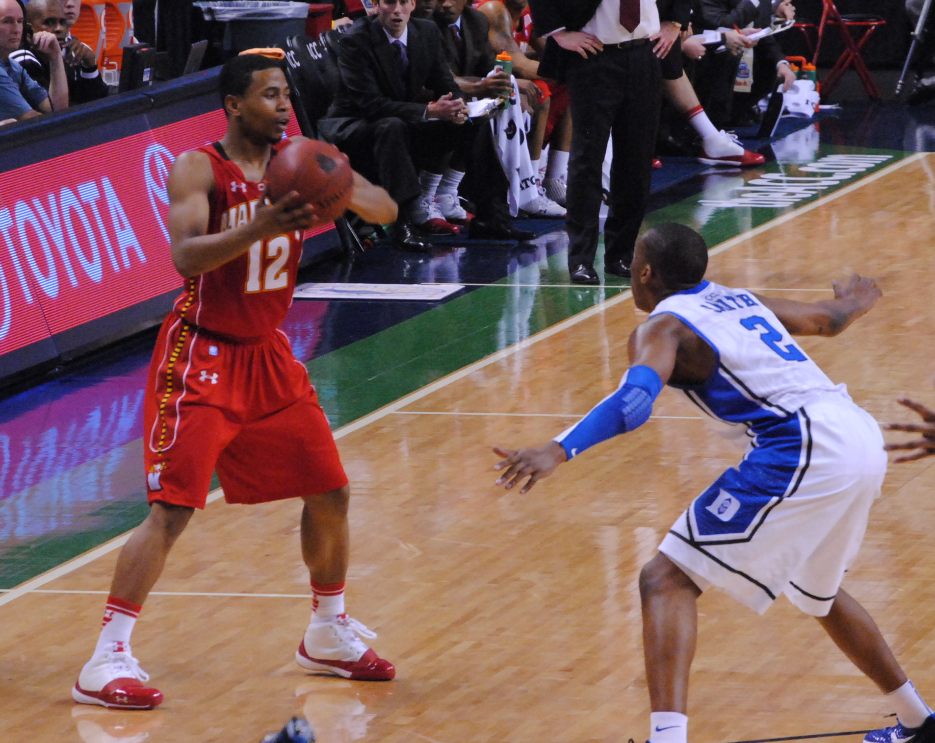 Terrell Stoglin works the ball against Nolan Smith as NCAA Referee Tim Nester looks on.